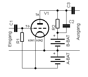 Grid rectifier with directly heated triode